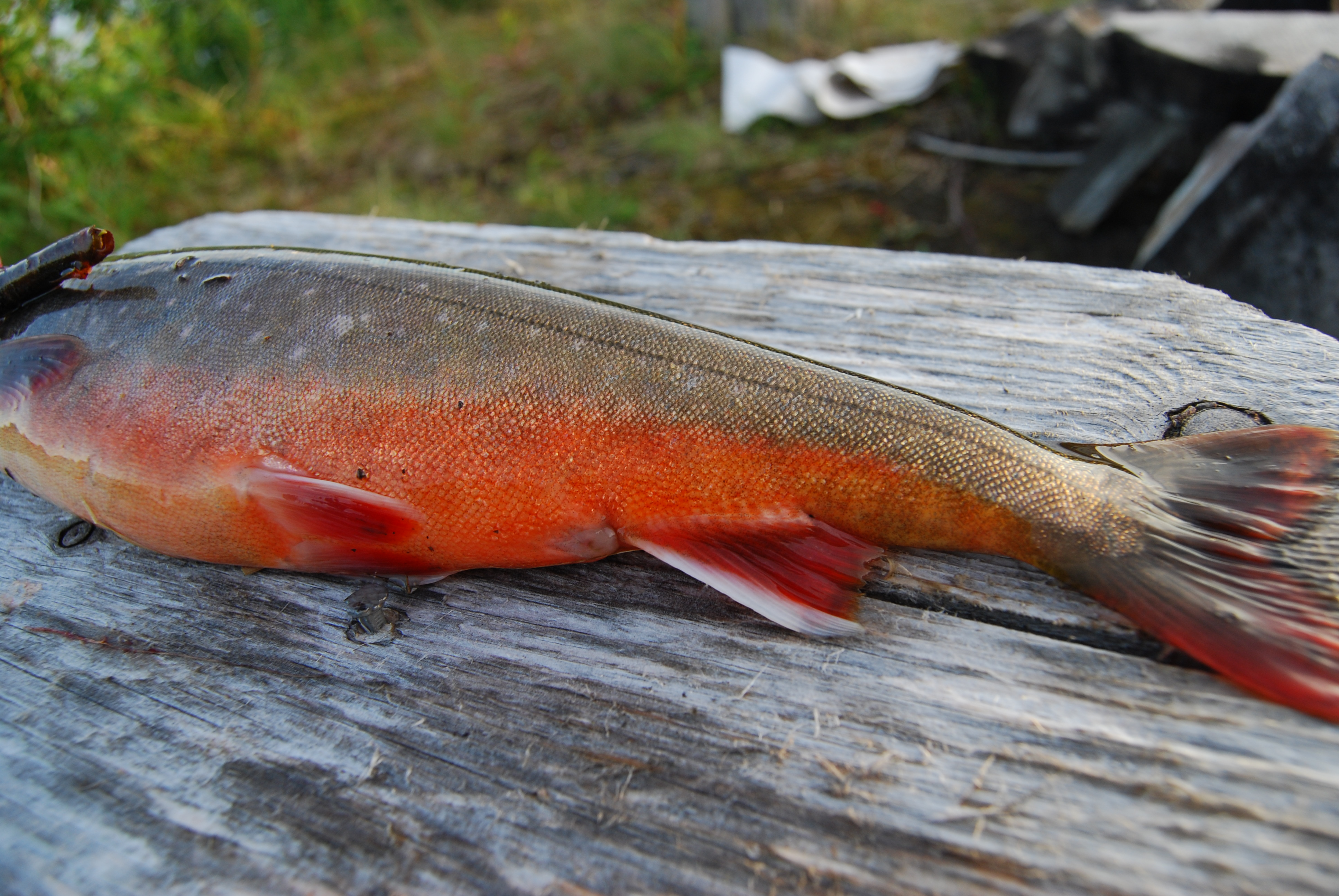 Salvelinus alpinus, Norway